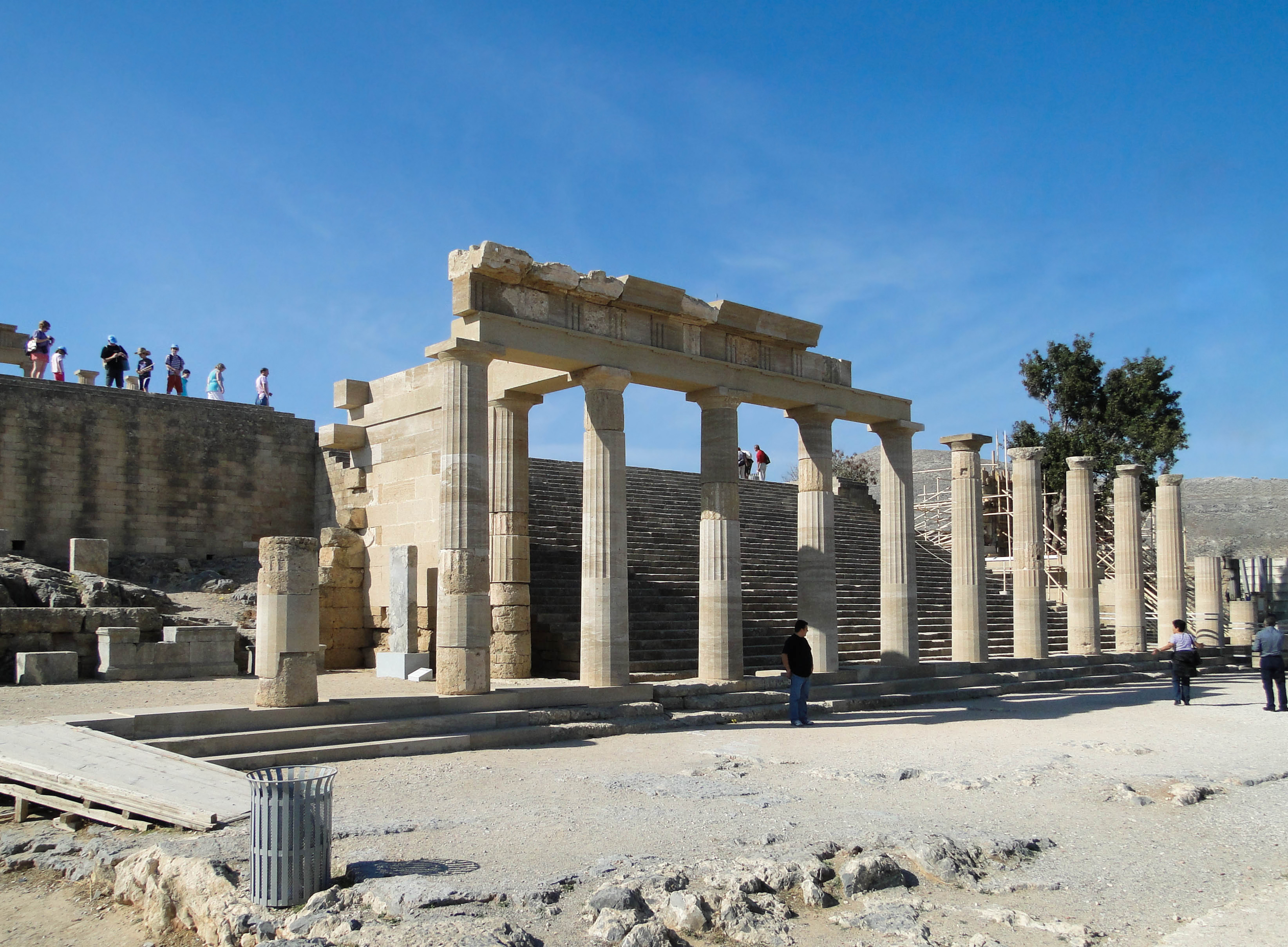 Staircase of the Propylaea of the Acropolis of Lindos, Rhodes, Greece